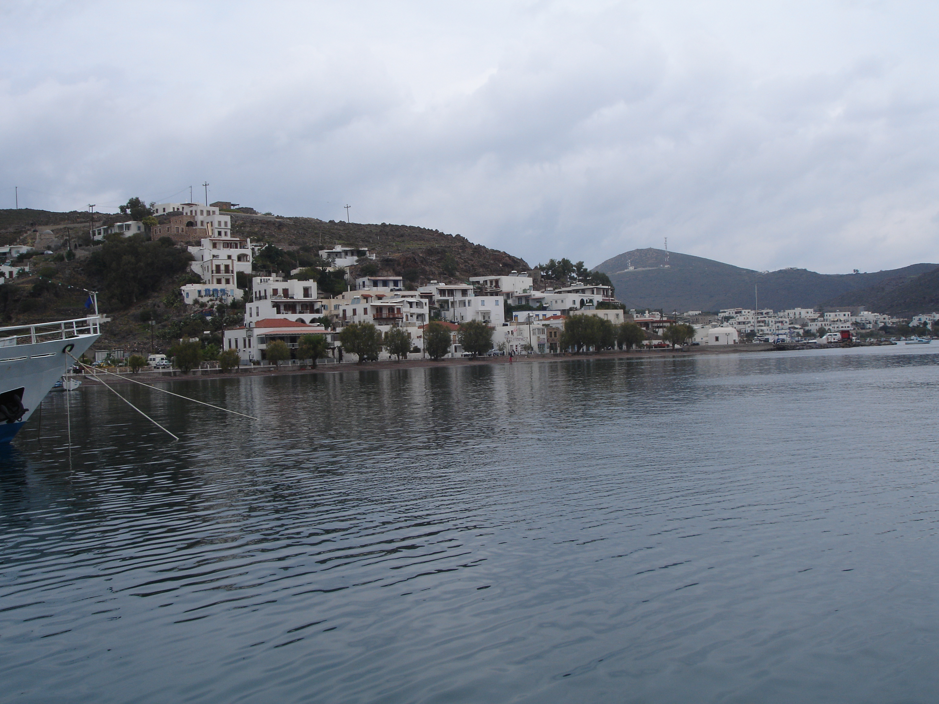 Patmos, Greece, view of the main town or "hora"